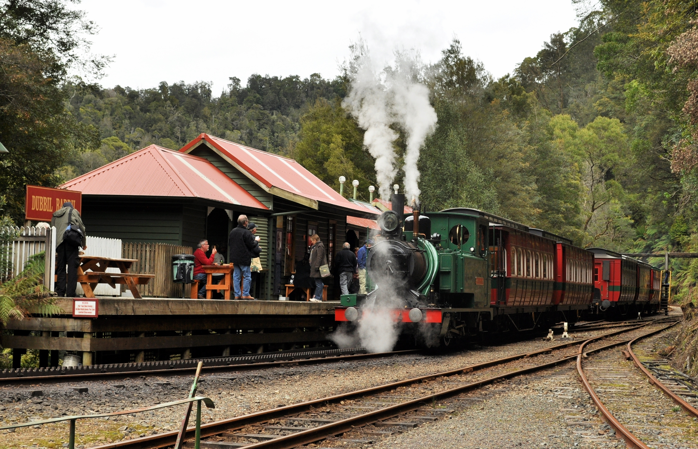 ABT loco No 3 ready to depart Dubbil Barril for its return journey to Queenstown. Train to Strahan can be seen behind.